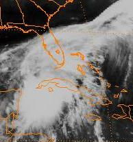 Tropical Depression 10 in 1994